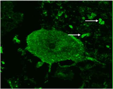 Healthy human cerebellum, Purkinje cell layer, t = 36 weeks after rituximab treatment stained with a reference anti-GAD65 monoclonal antibody. Thin arrows show presynaptic terminals staining only with the anti-GAD65 monoclonal antibody